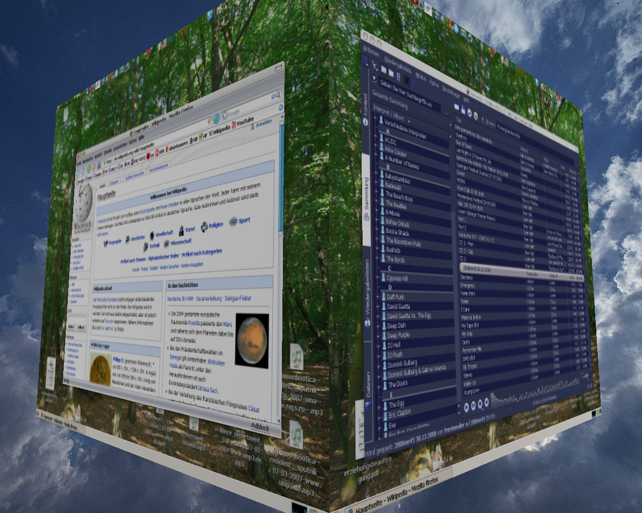 Ubuntu Edgy + Beryl (Linux Desktop 2007)